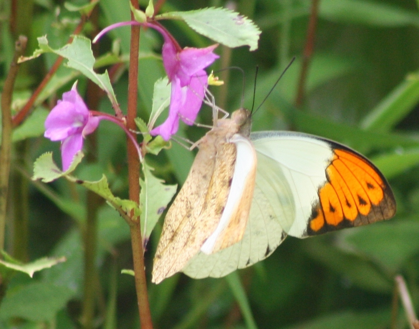 Great Orange Tip (Hebomoia glaucippe). Ovalekar Wadi Butterfly garden, Thane, Maharashtra.